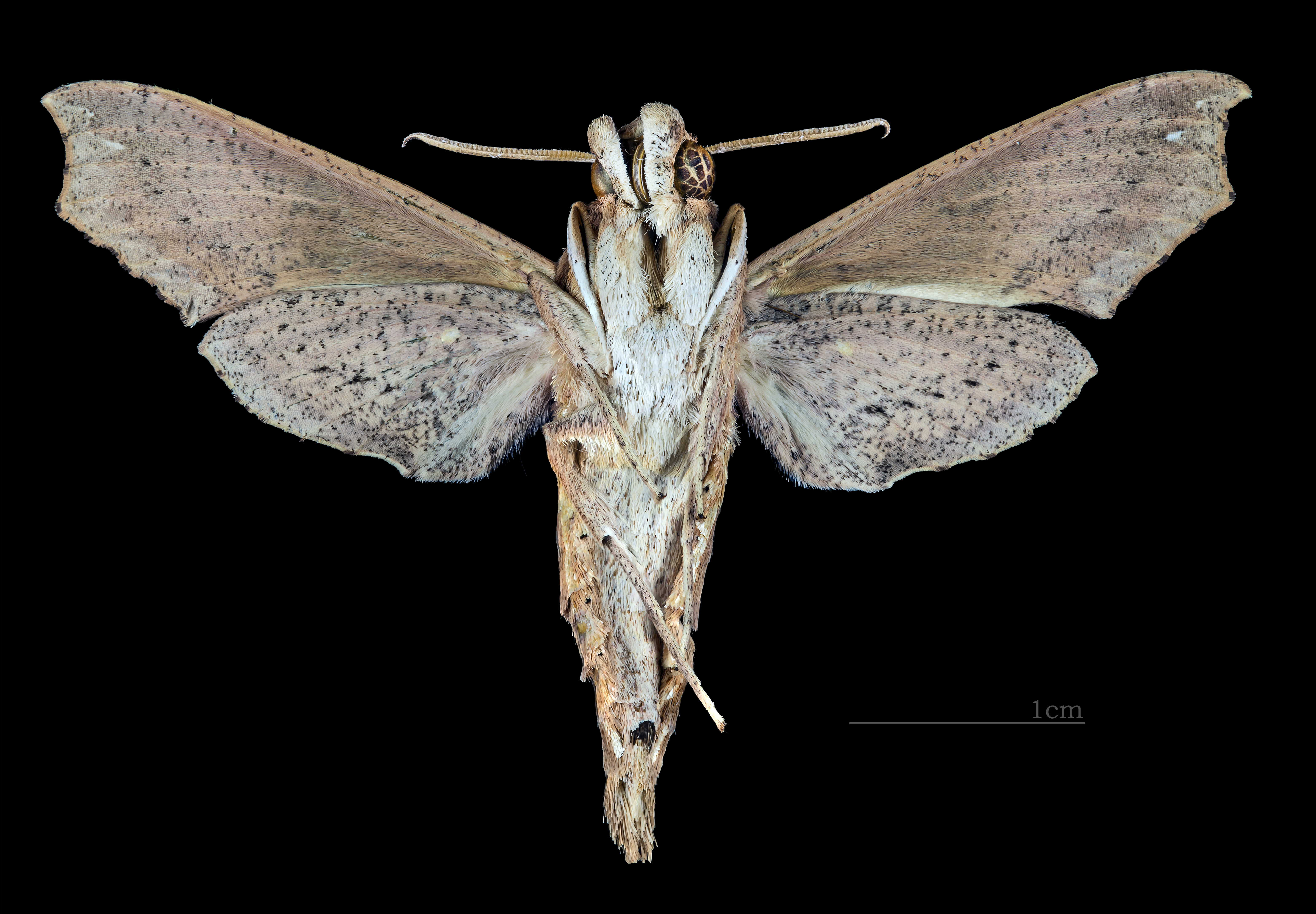 Eupanacra automedon - △ Ventral side Collection of the Mathematician Laurent Schwartz